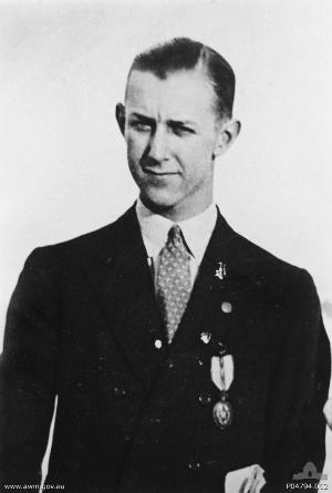 Informal portrait of Stanley Frederick Gibbs, an Australian recipient of the Albert Medal/George Cross.